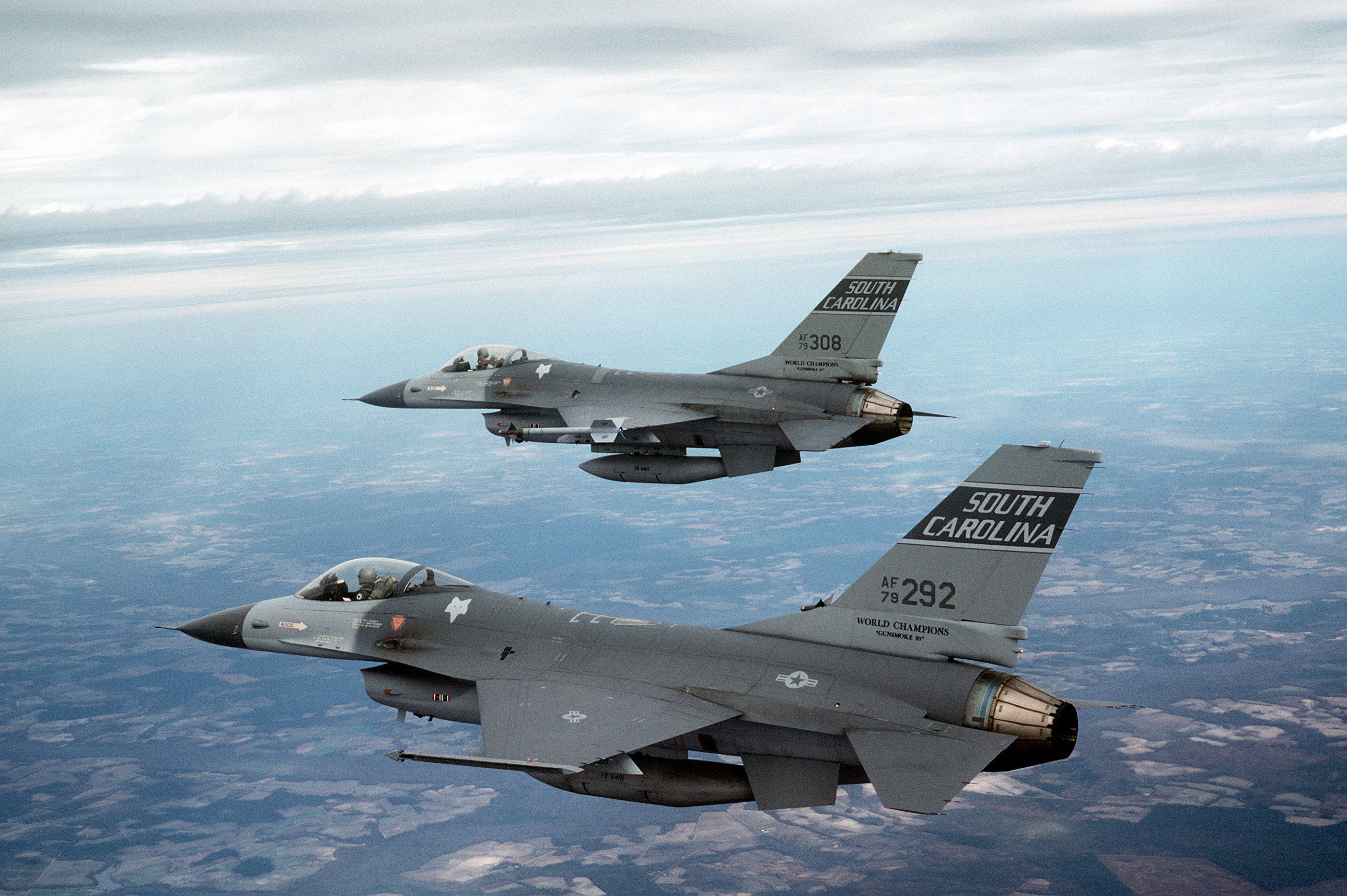 Two U.S. Air Force General Dynamics F-16A Block 10 Fighting Falcon (s/n 79-0292, 79-0308) from the 157th Tactical Fighter Squadron, 169th Tactical Fighter Group, South Carolina Air National Guard, in flight in 1989.